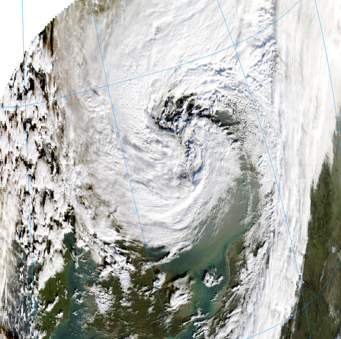 The intense European windstorm Erwin in the North Sea on January 8, 2005